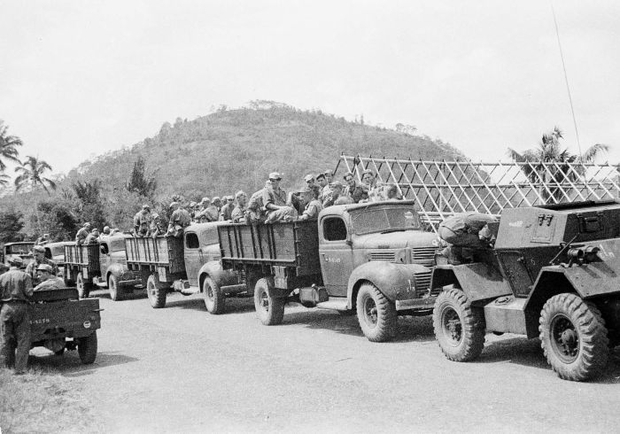 A military column during the first police action